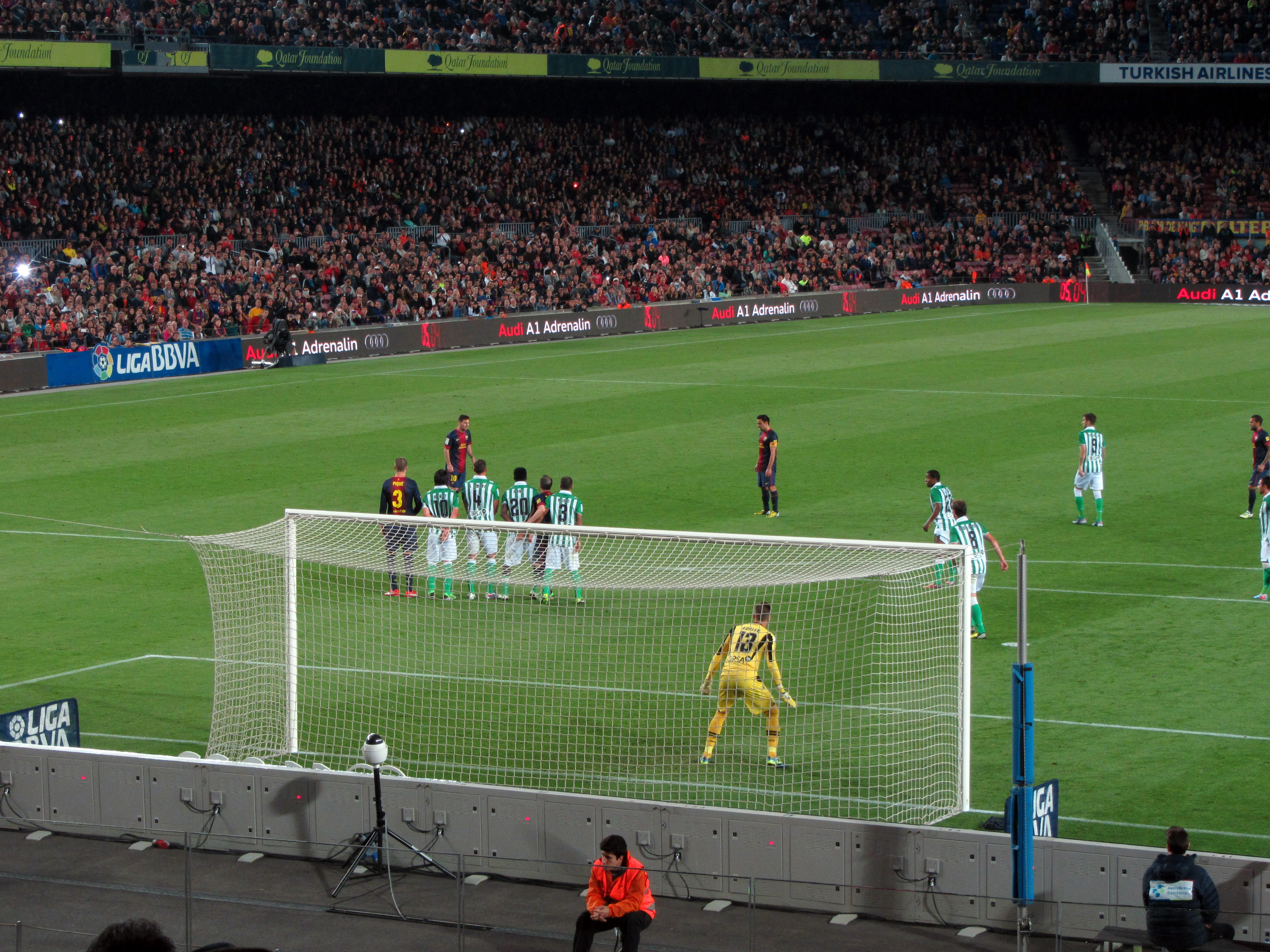 2013-05-05 FC Barcelona - Real Betis 4:2 Primera División Freekick goal by Messi